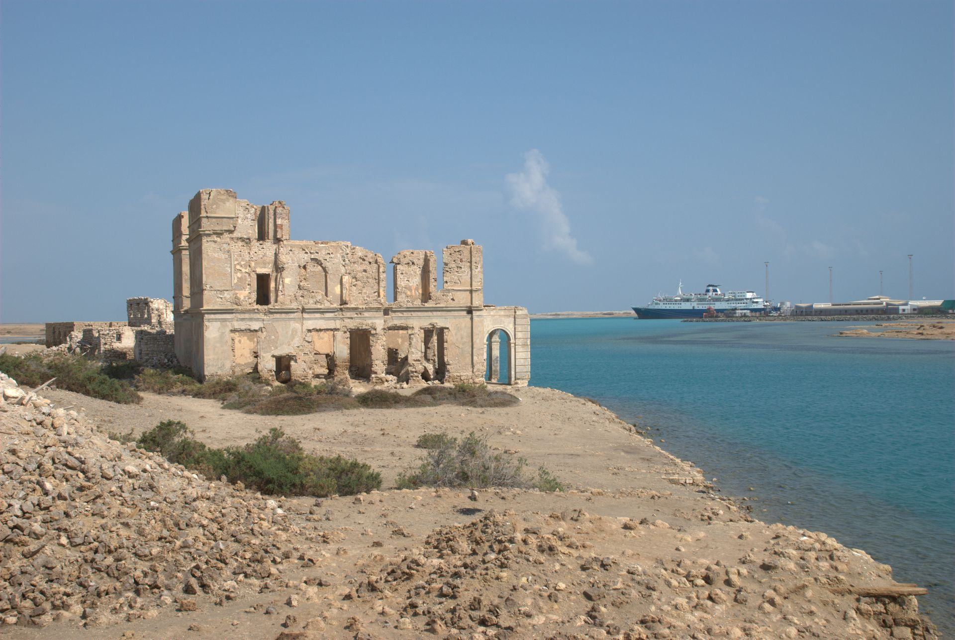 Suakin, Sudan, ruins of egypt national bank